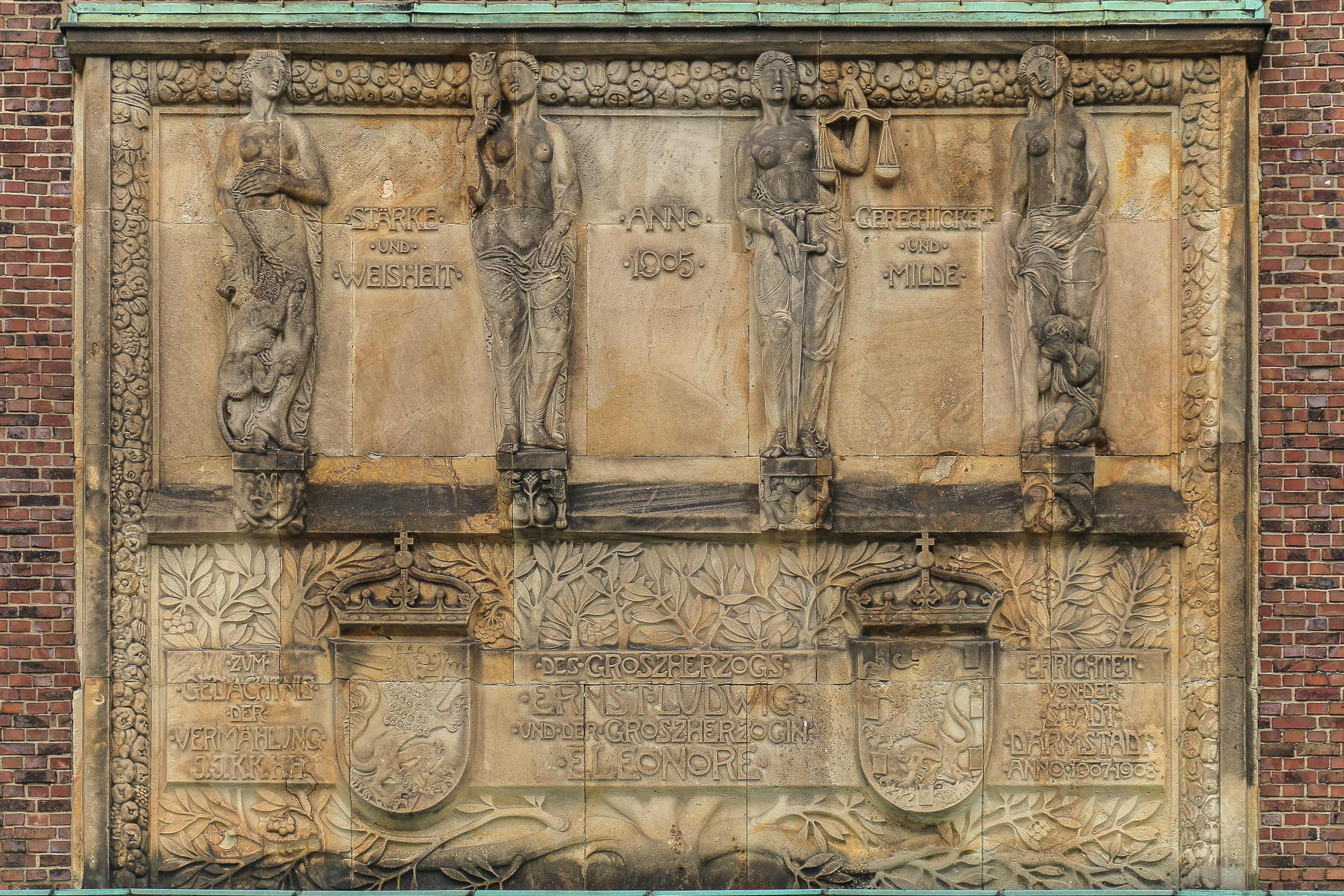 Front relief of the Wedding Tower (Hochzeitsturm), Mathildenhöhe, Darmstadt, Germany